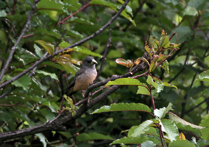 Black-&-Yellow Grosbeak Mycerobas icterioides in Kullu District of Himachal Pradesh, India. We were fortunate to see this lovely bird at 5 to 6 points during the Sar Pass trek. It's call of 'pir-riu pir-riu pir-riu........' was really wonderful. It will sit at some distant canopy in the early mornings & late evenings & give some good views to all the trekkers from camps with Binocolors. Early morning a number of these birds (along with females which are quite dull in comparison) were seen feeding at ground at Bhandak Thaatch (8000 ft.). Only to fly away on the adjustant trees on approach.